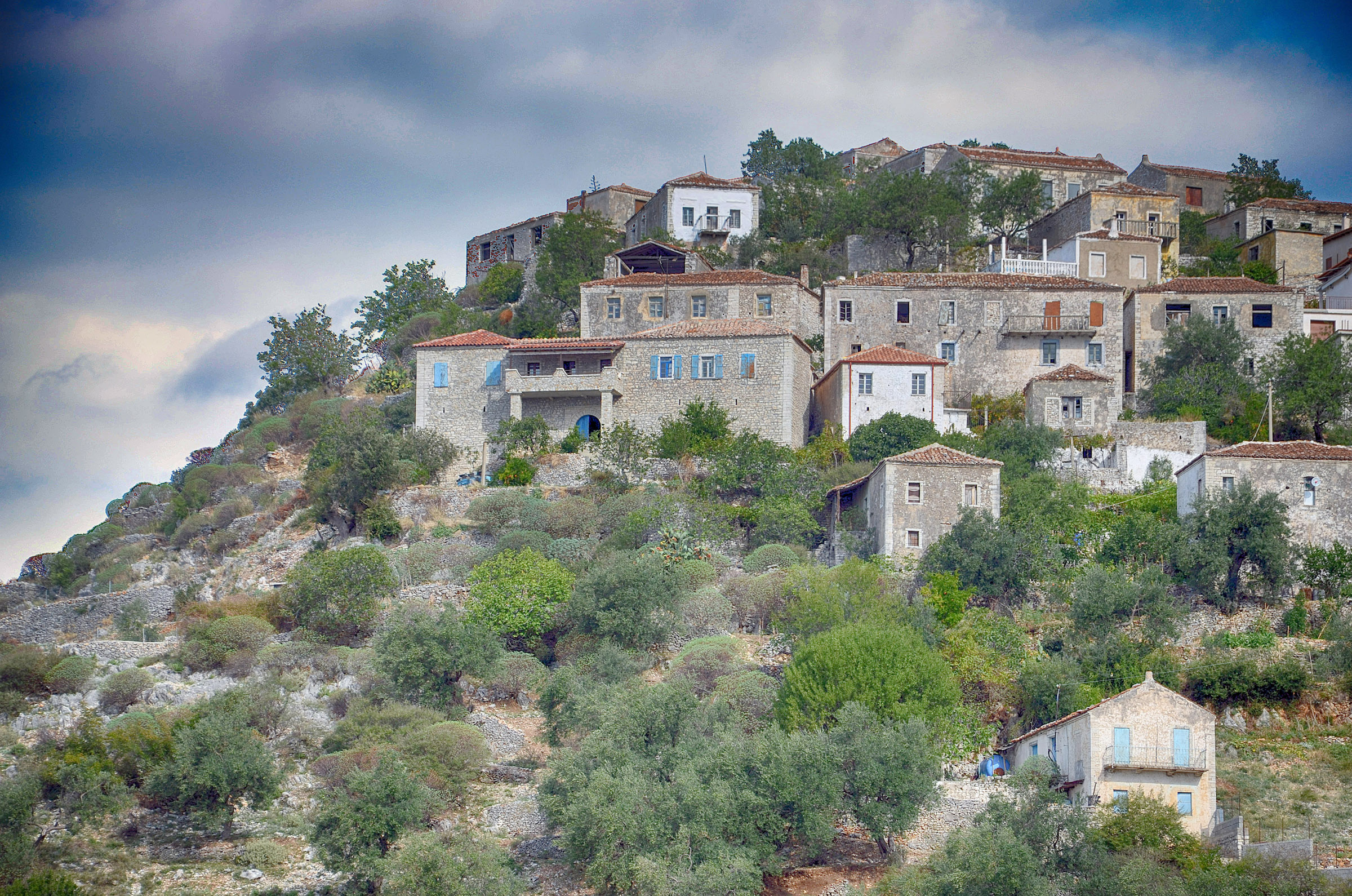 The old village (upper part) of Qeparo